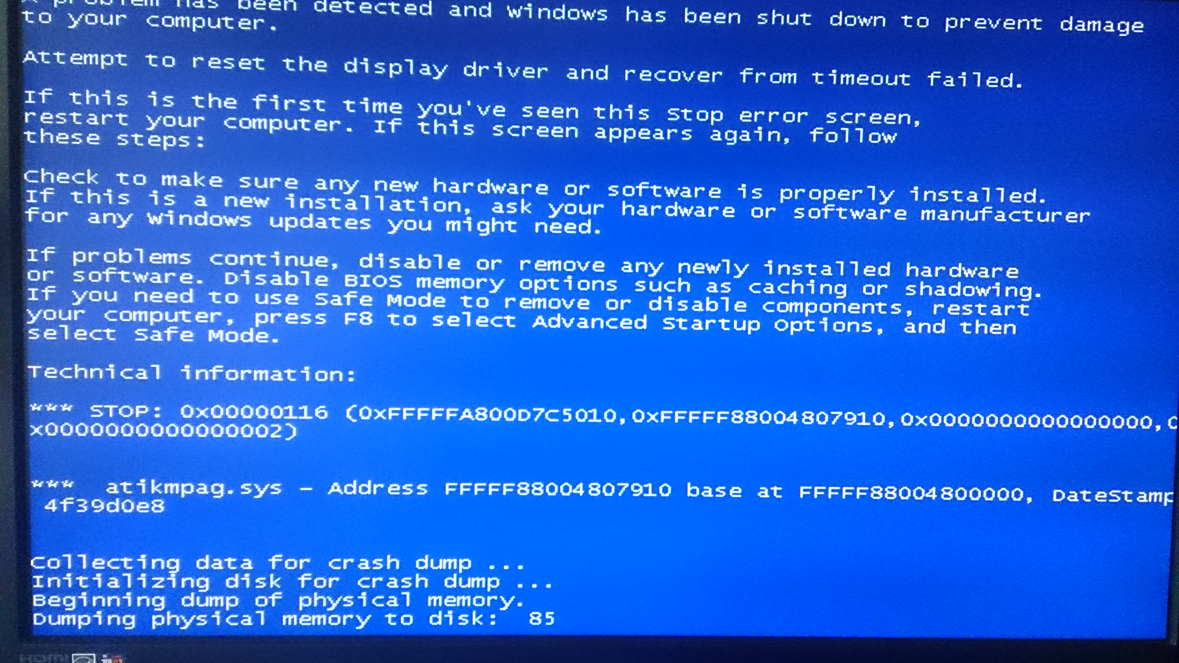 blue screen of death for Windows 7